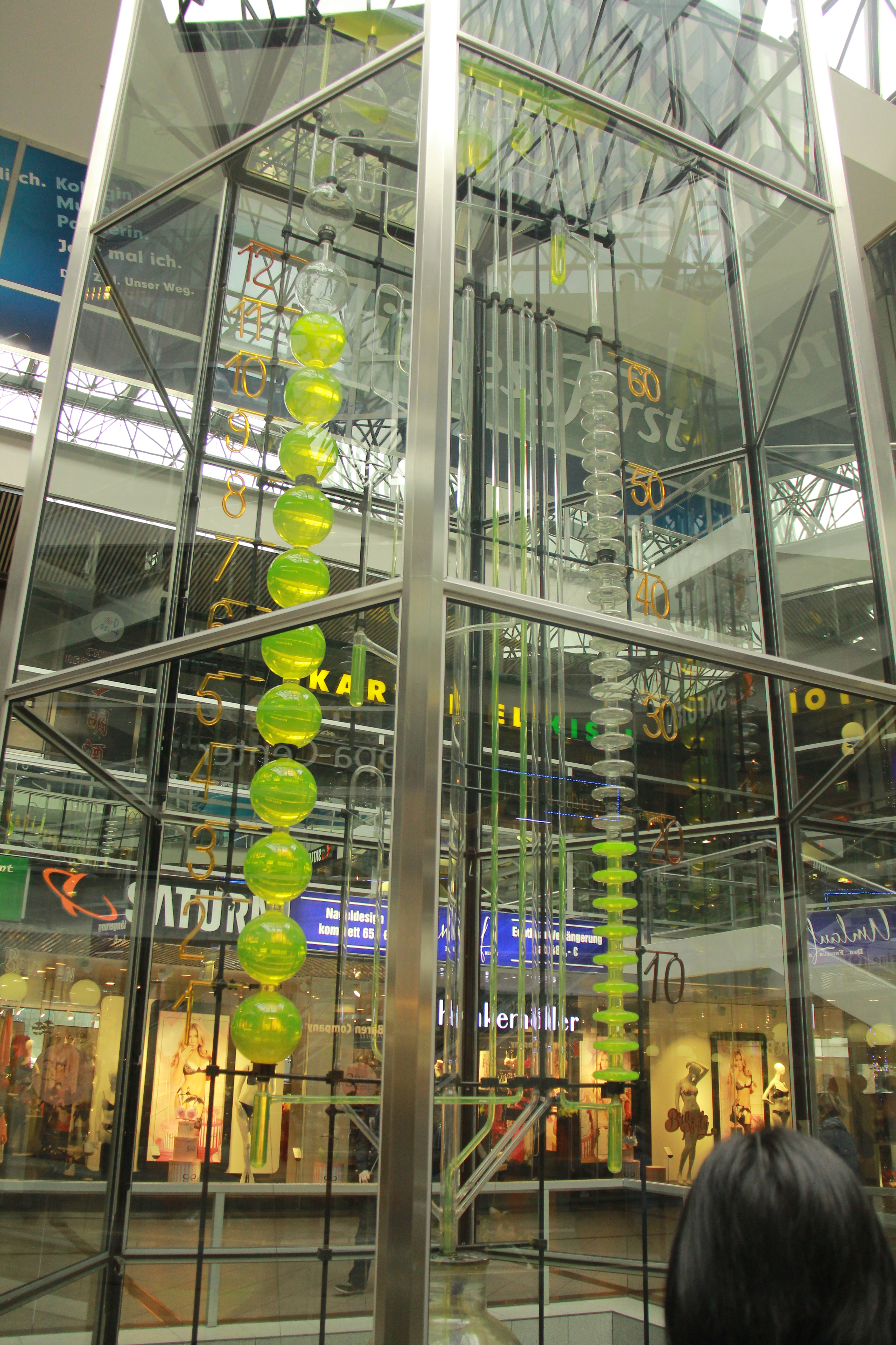 Flow of time clock (Water Clock) in Berlin, Germany